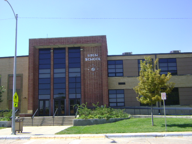 The front side of the high school